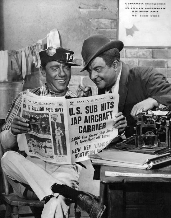 Publicity photo of Freeman Gosden as Amos and Charles Correll as Andy from the radio program Amos 'n' Andy.